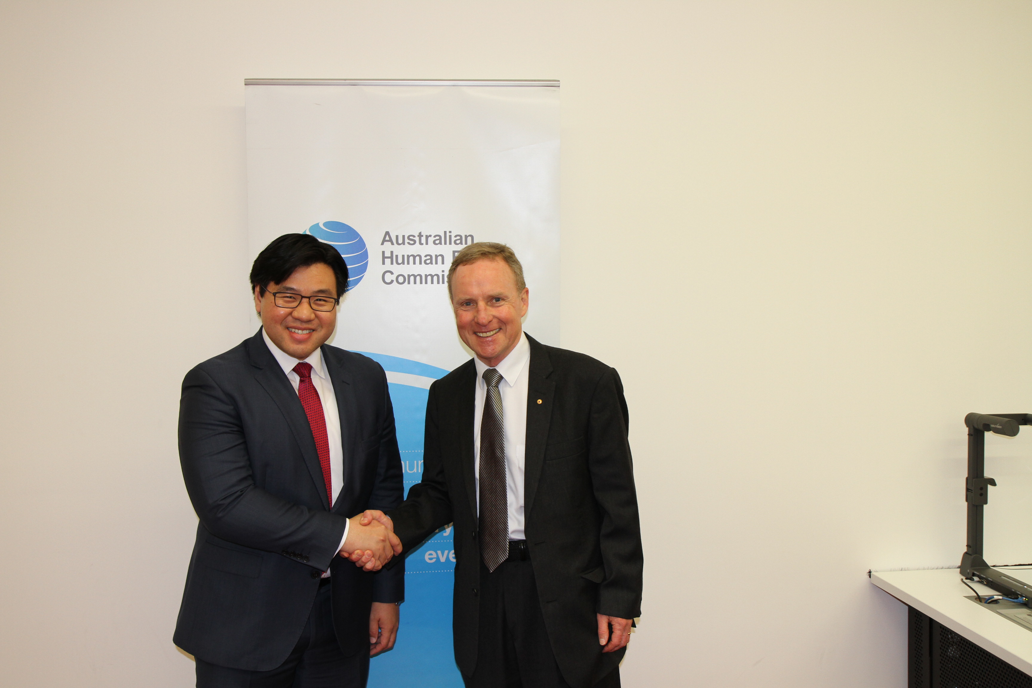 Tim Soutphommasane with David Morrison prior to Morrison presenting the 2016 Kep Enderby Memorial Lecture.